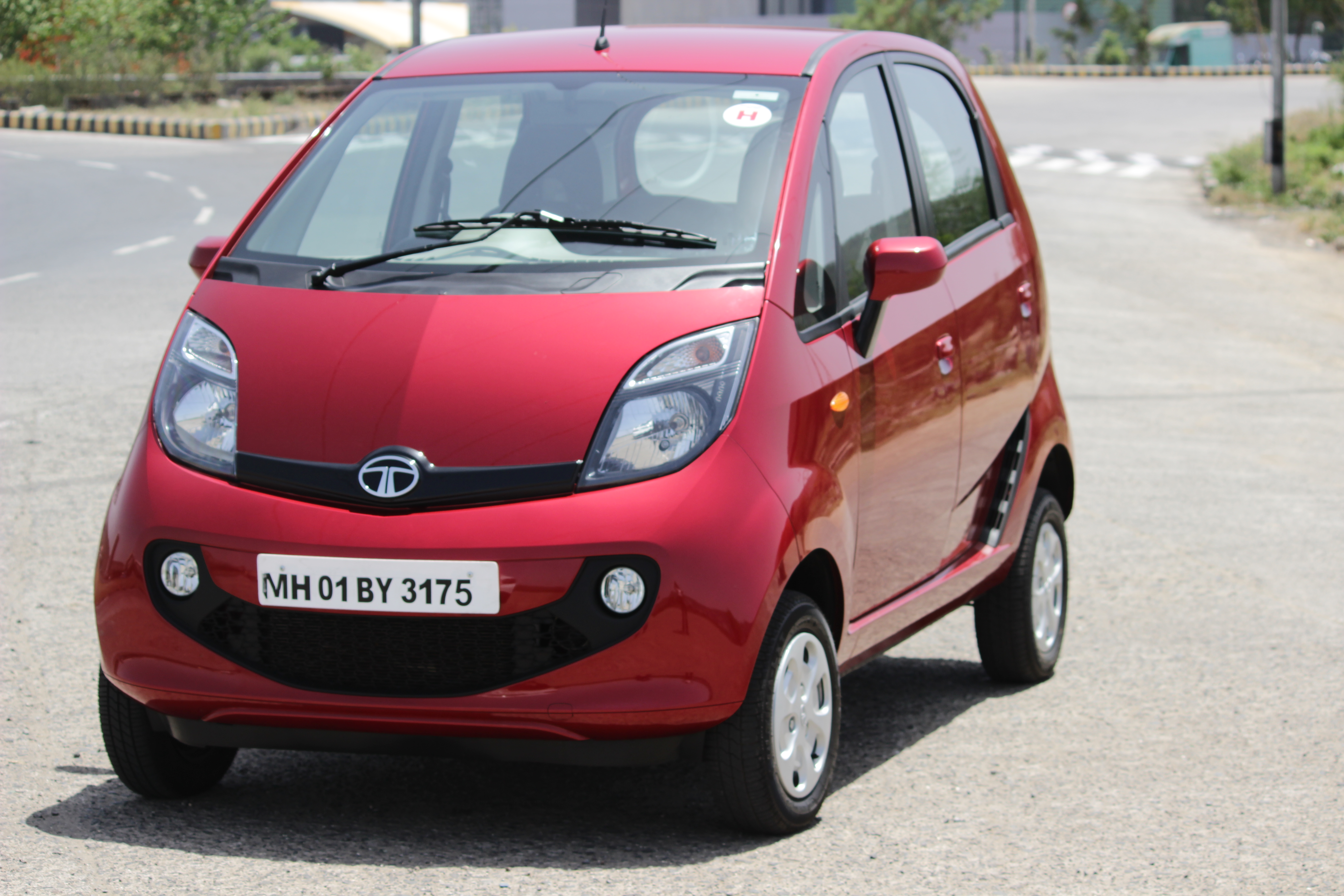 Soon to be launched GenX Nano Easy Shift (AMT)